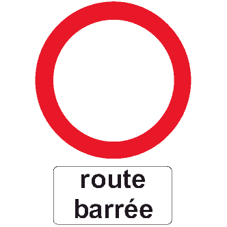 Diagram of road signs of Luxembourg